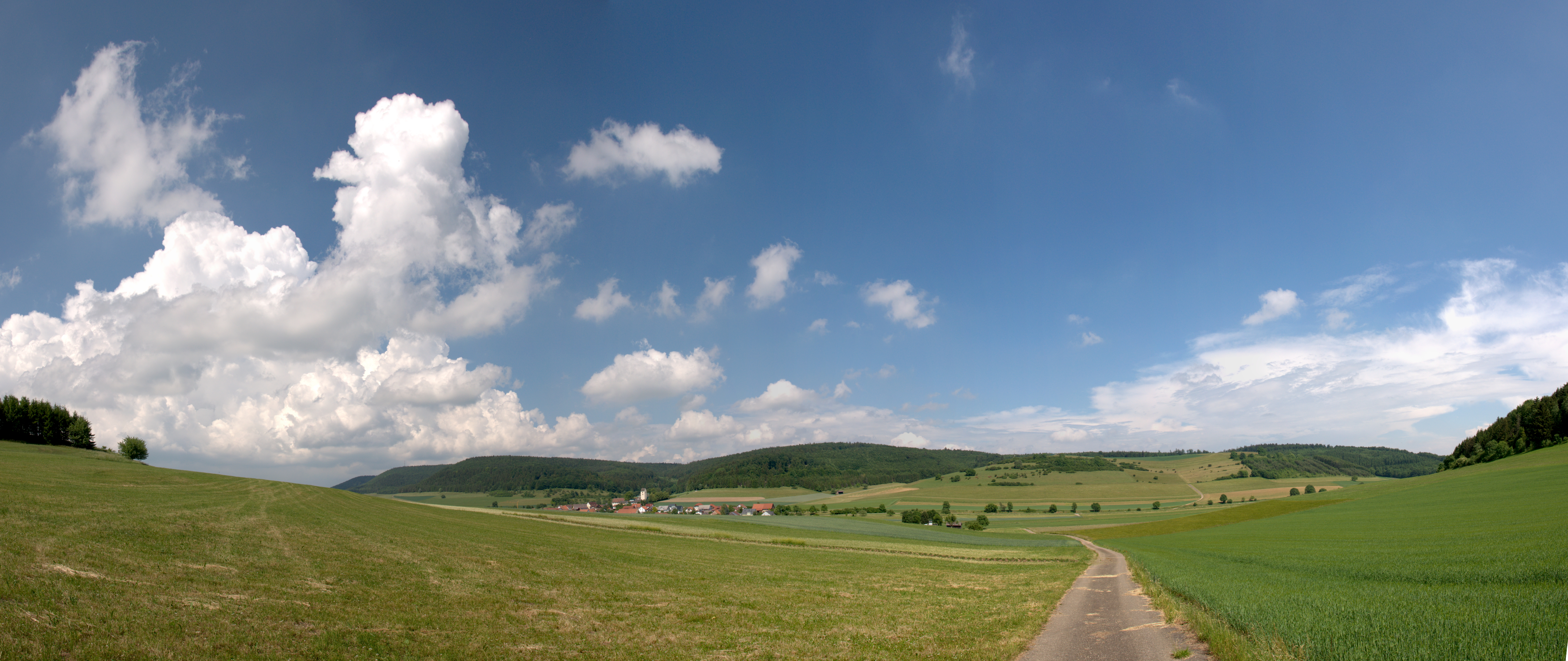 Germany, Baden-Württemberg, panoramic view of Hondingen